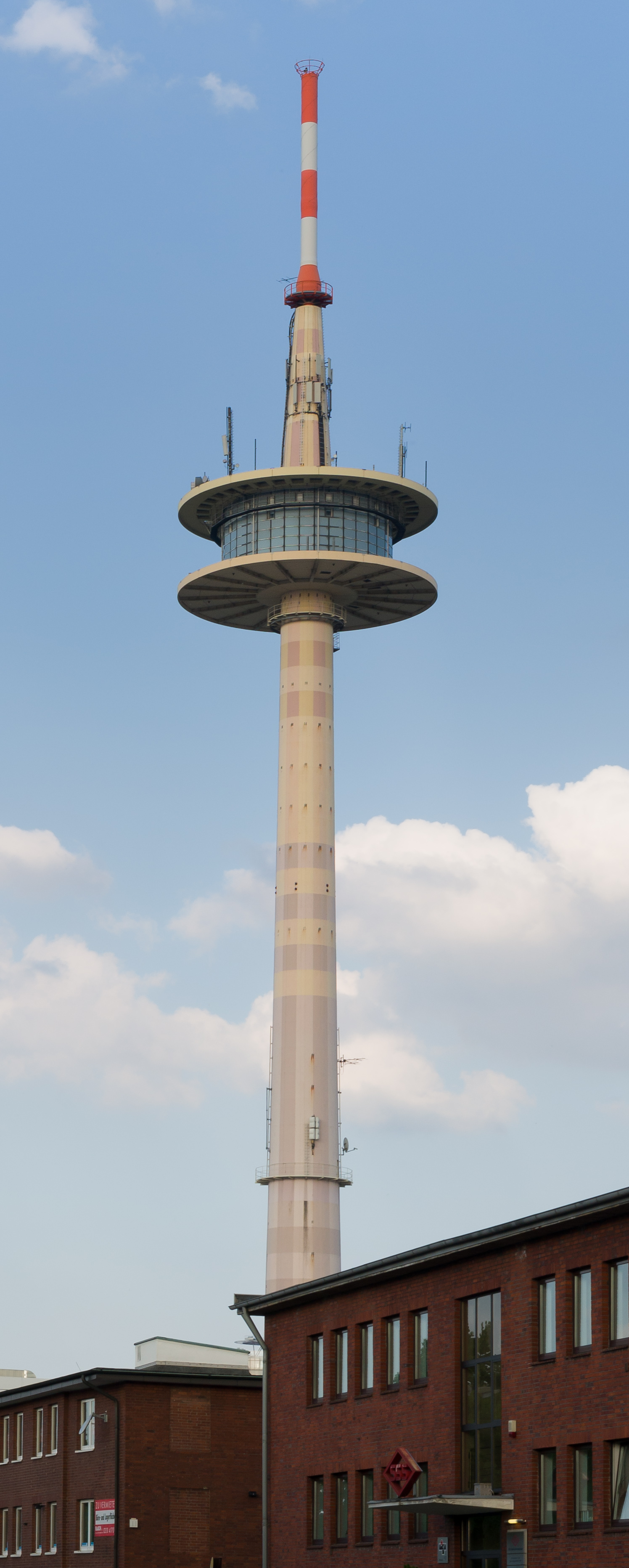 Radio tower of Essen